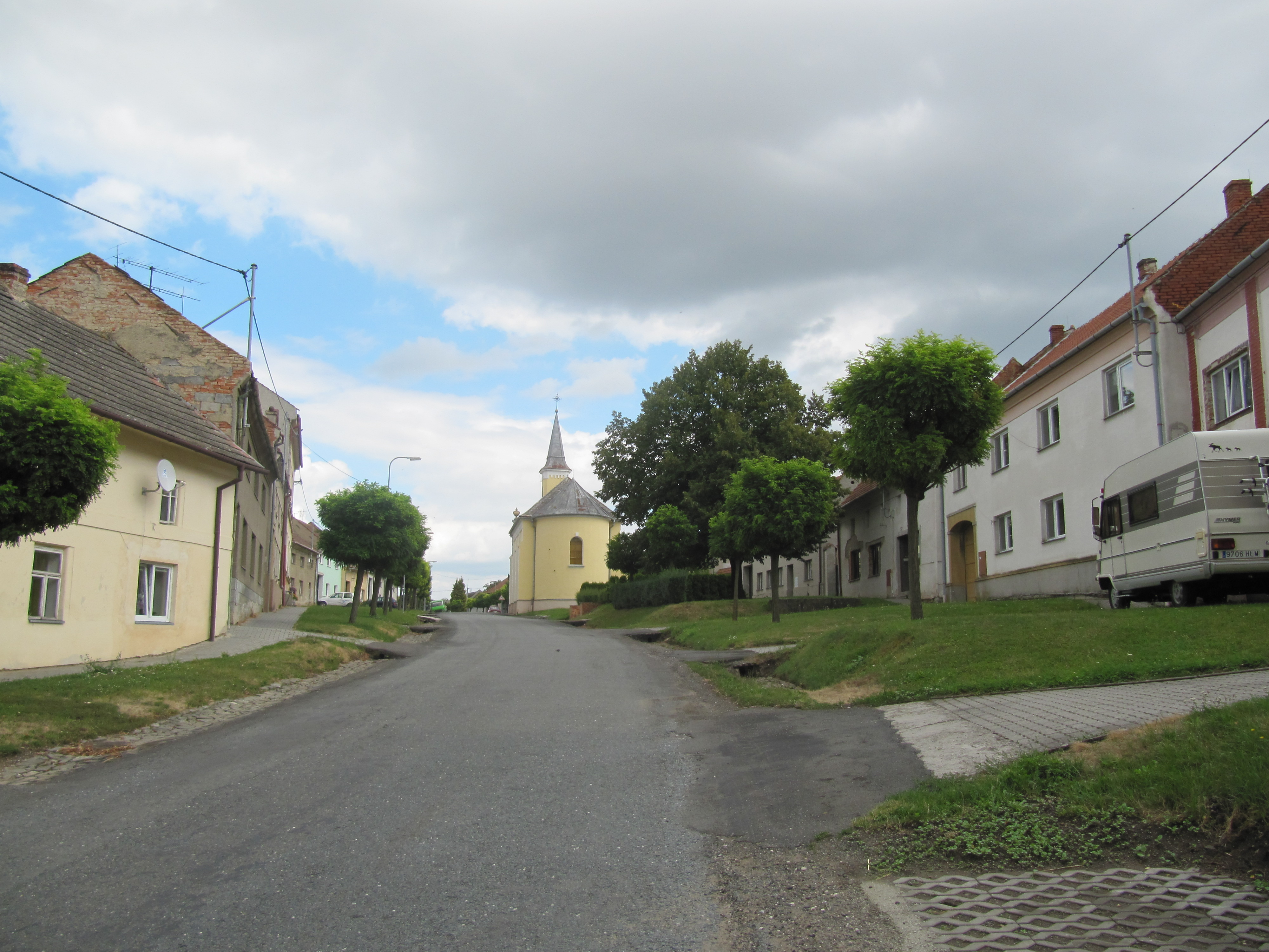 Ivaň, Prostějov District, Czech Republic.